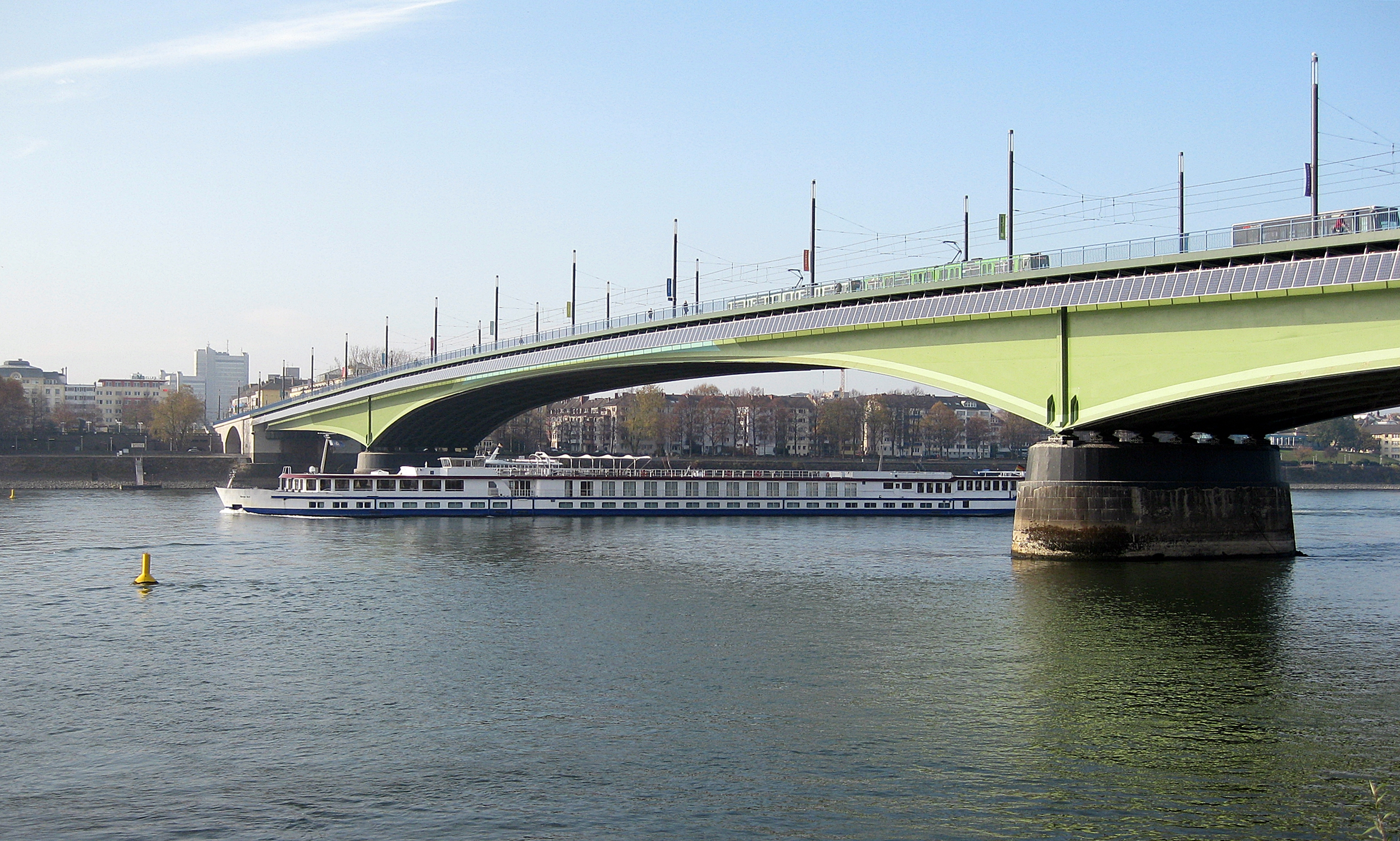 Germany, Northrhine westphalia, Bonn: Kennedy Bridge over the Rhine. The bridge links Bonn-Beuel (until July 1969 an independent city) and Bonn city. During a three-year renovation period (from 2007 to 2010) it was renovated and expanded. From March to April 2011 on the south side of the bridge - a solar system for electricity generation had been installed - over the entire width of the building. It was donated by the local company SolarWorld AG. The expected feed-in tariff is planed to be donated -according to the will of the sponsor- annually changing to a local organization.